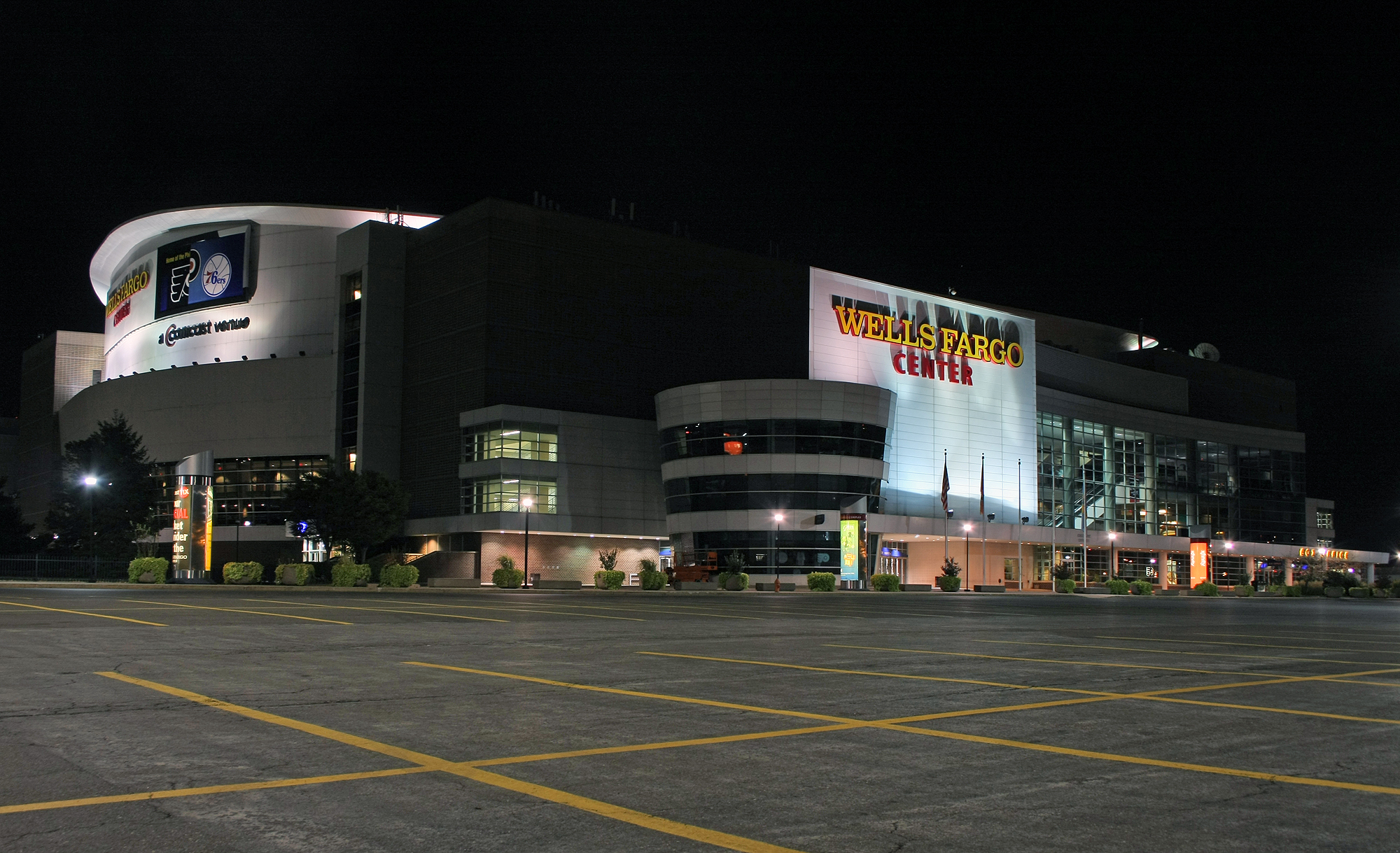 Northwest corner of the Wells Fargo Center